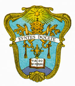 Emblem of the Maestre Pie Filippini (Religious Teachers Filippini), from a incision 1800